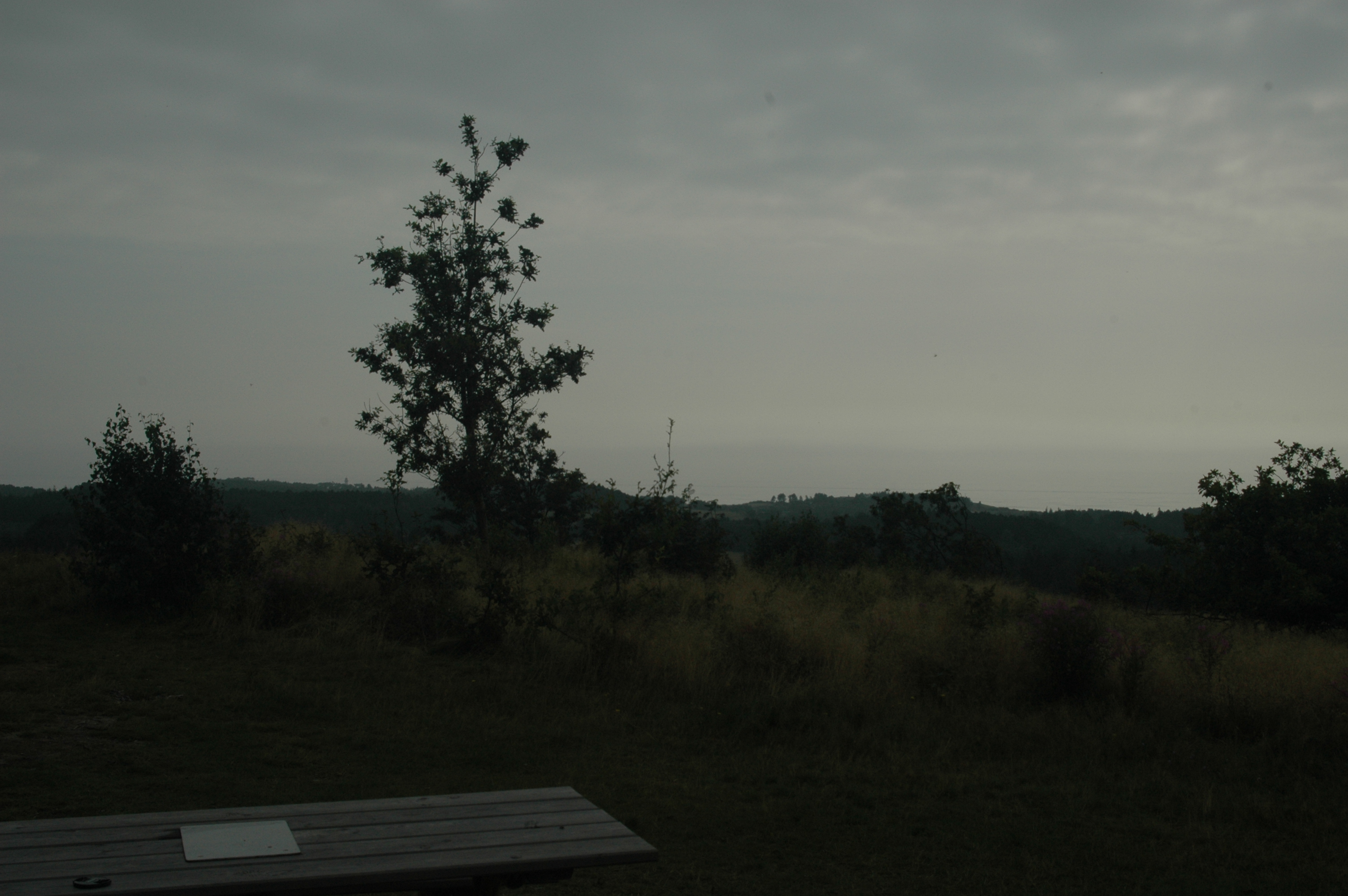 View from summit (99 m ASL) of Ellemandsbjerg, Denmark, southwards towards Sletterhage Lighthouse and Aarhus Bight.